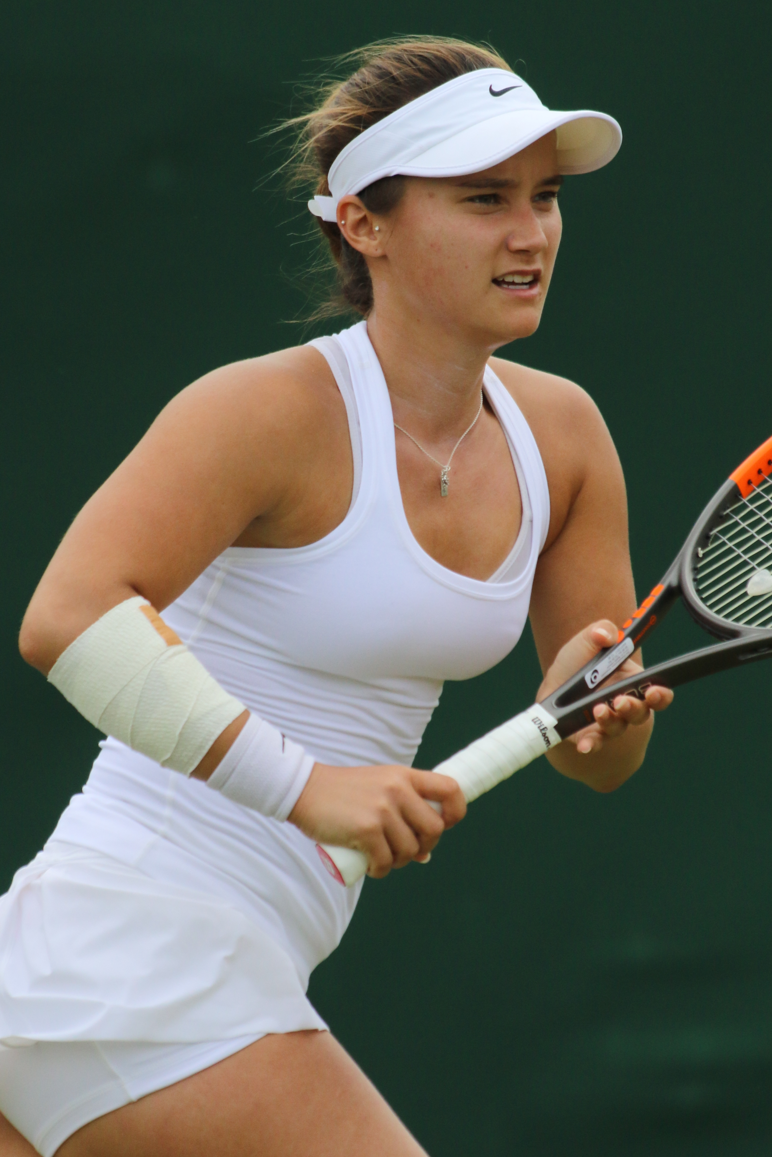 Davis WM17 (15)